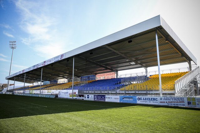 rugby stadium Nevers (France)